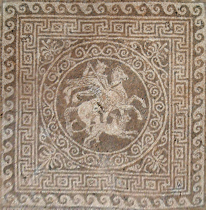 Floor mosaic depicting Bellerophon scene in a house of ancient city of Olynthos, Chalkidiki, Greece (northern hill of ancient town).